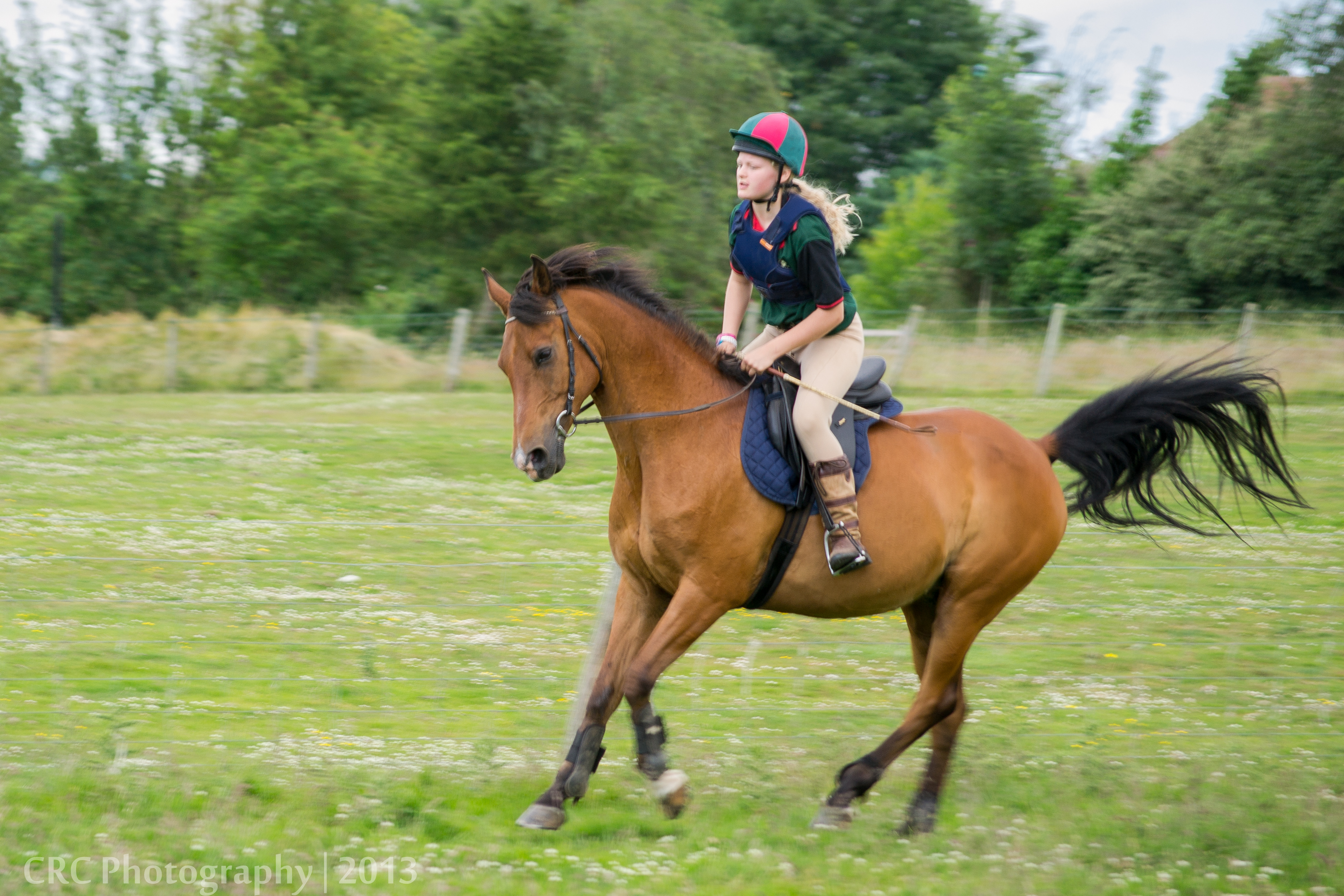 A friend invited me to take some pics of her daughter riding a horse. I thought I would have a go at something completely different.